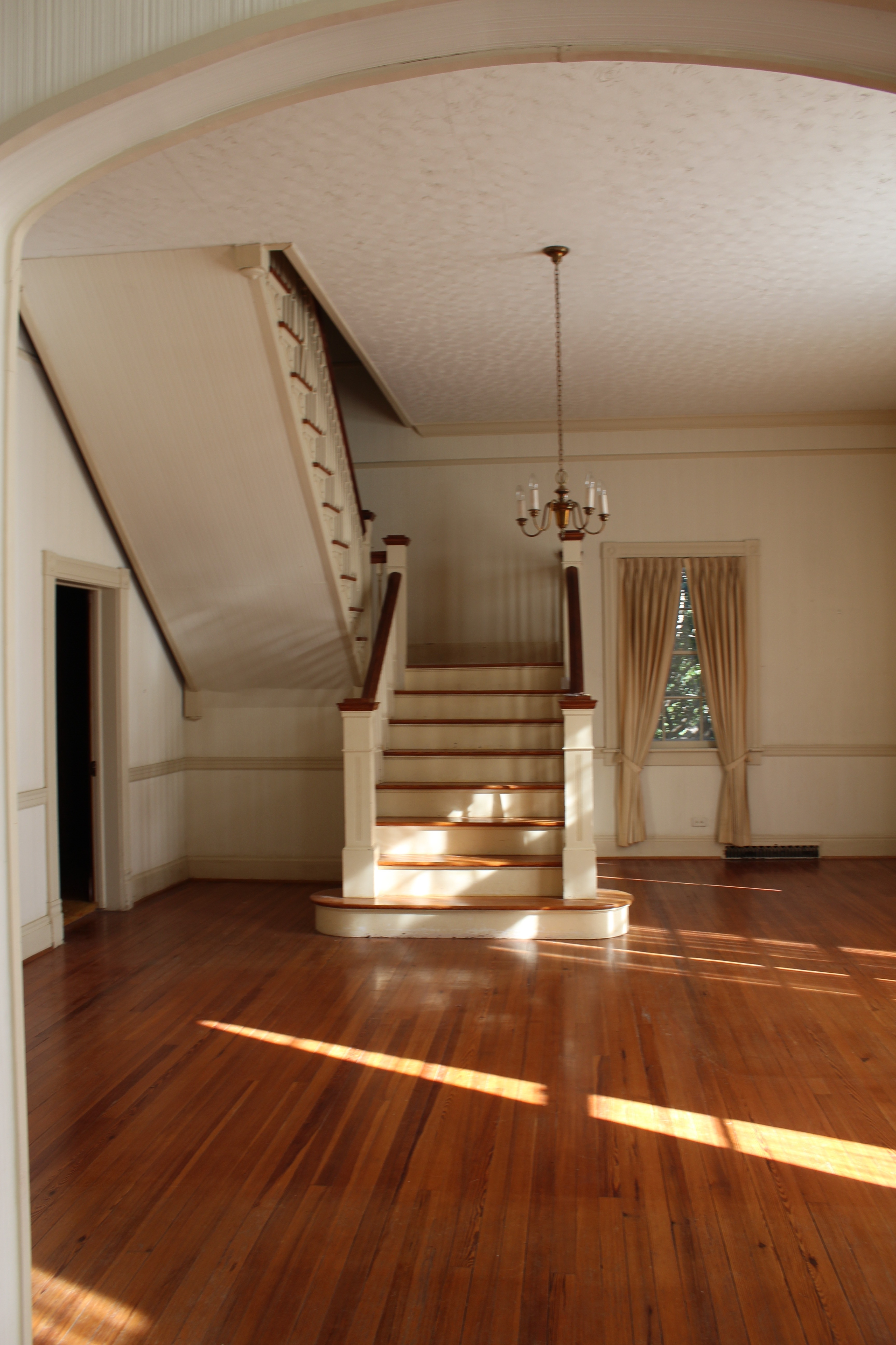 This photo shows the main staircase, located in the front room, of the Bedford Alum Springs Hotel